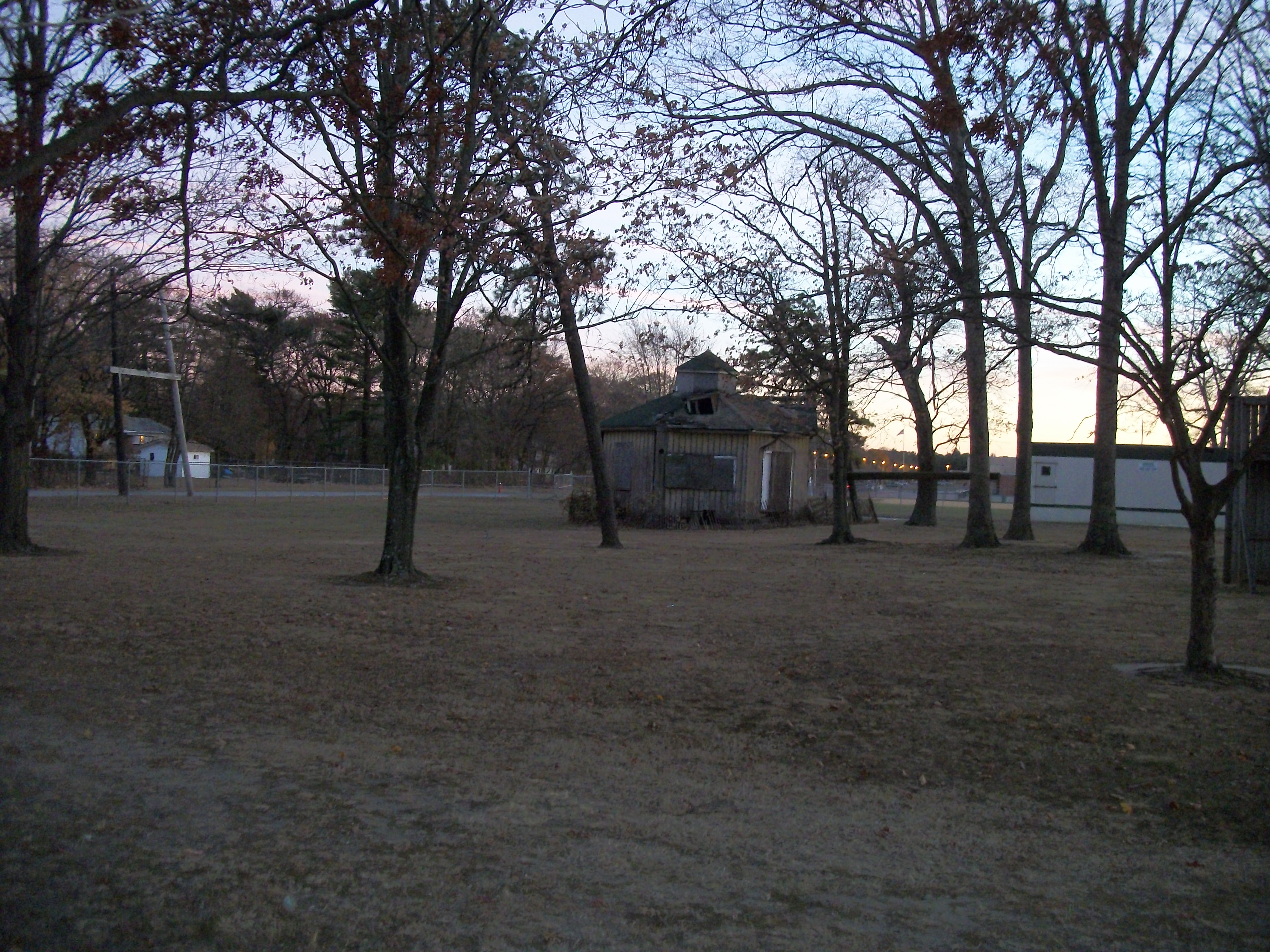 The historic Modern Times School, in Brentwood, New York, as shot from over the chain-link fence surrounding Brentwood High School.